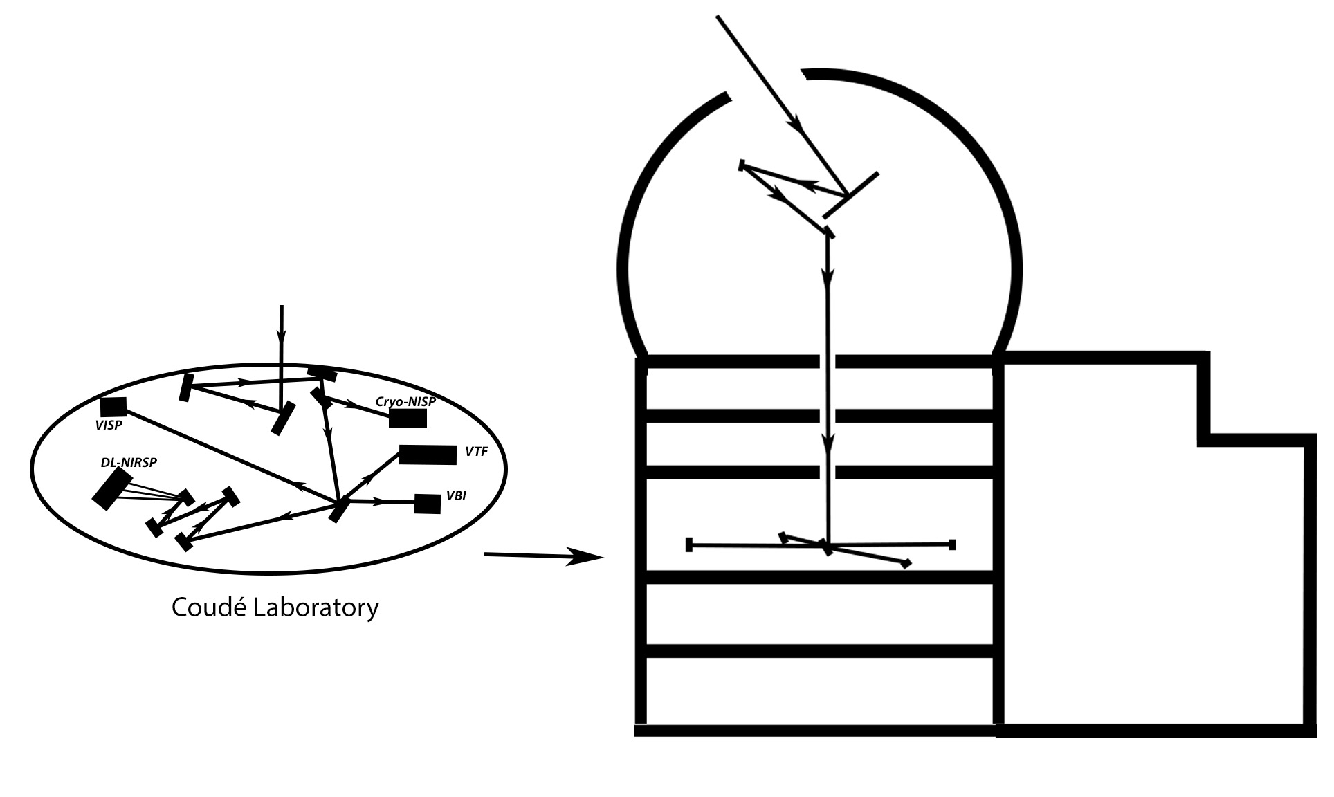 This diagram shows the course done by the ray of light in the telescope.